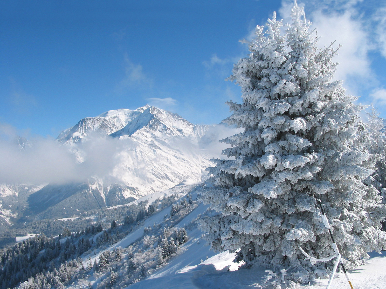 Saint-Gervais-les-Bains (Haute-Savoie - France), the Mont Blanc seen from the Mont d'Arbois winter sports station.